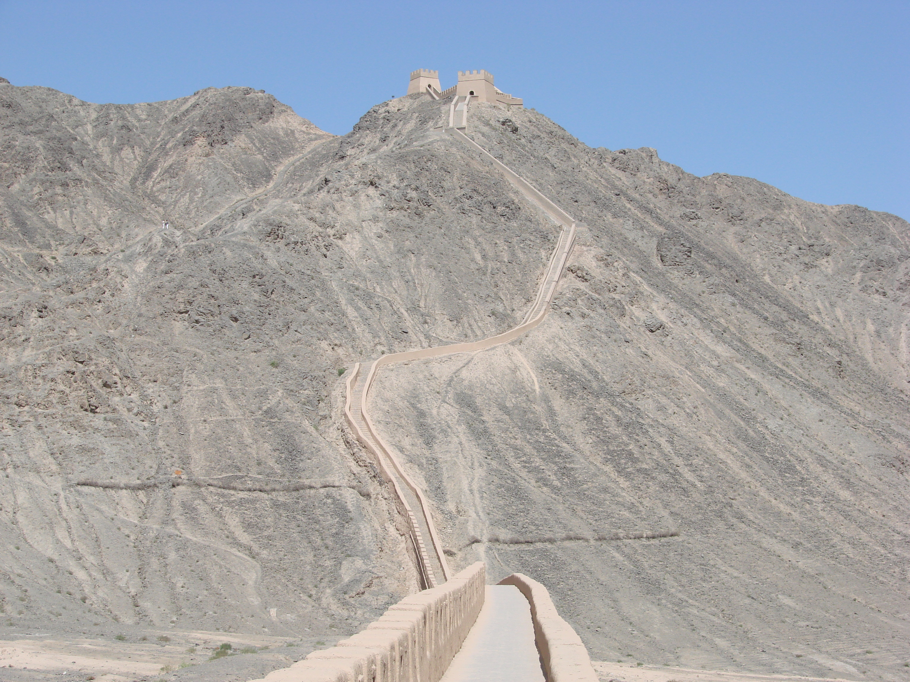 The western end of the Great Wall at Jiayuguan.